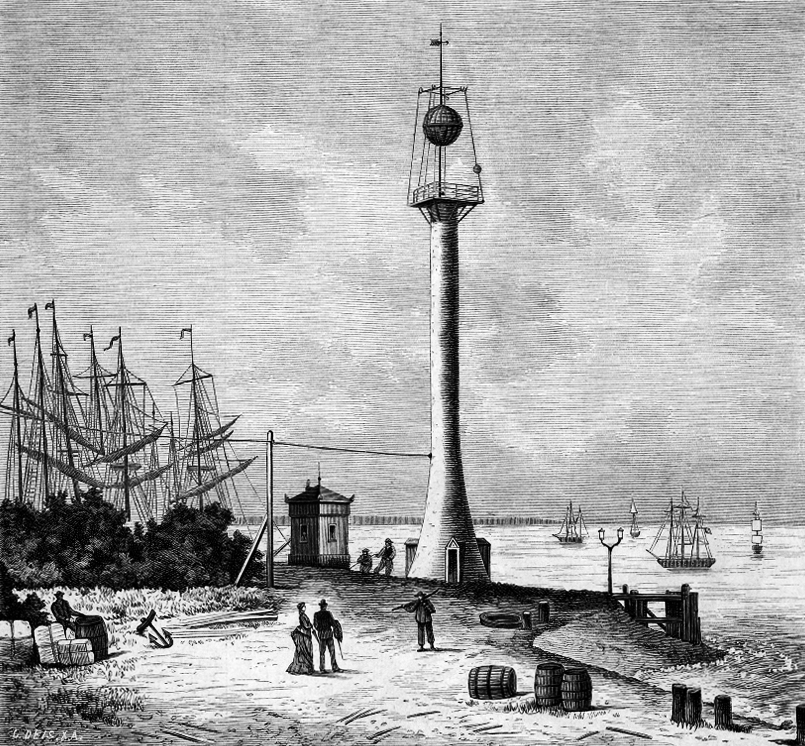 The time ball at the entrance to the port of Bremerhaven (Germany). Wood engraving by Robert Friedrich Stieler based on a drawing by H. Marutzky, ca. 1876.